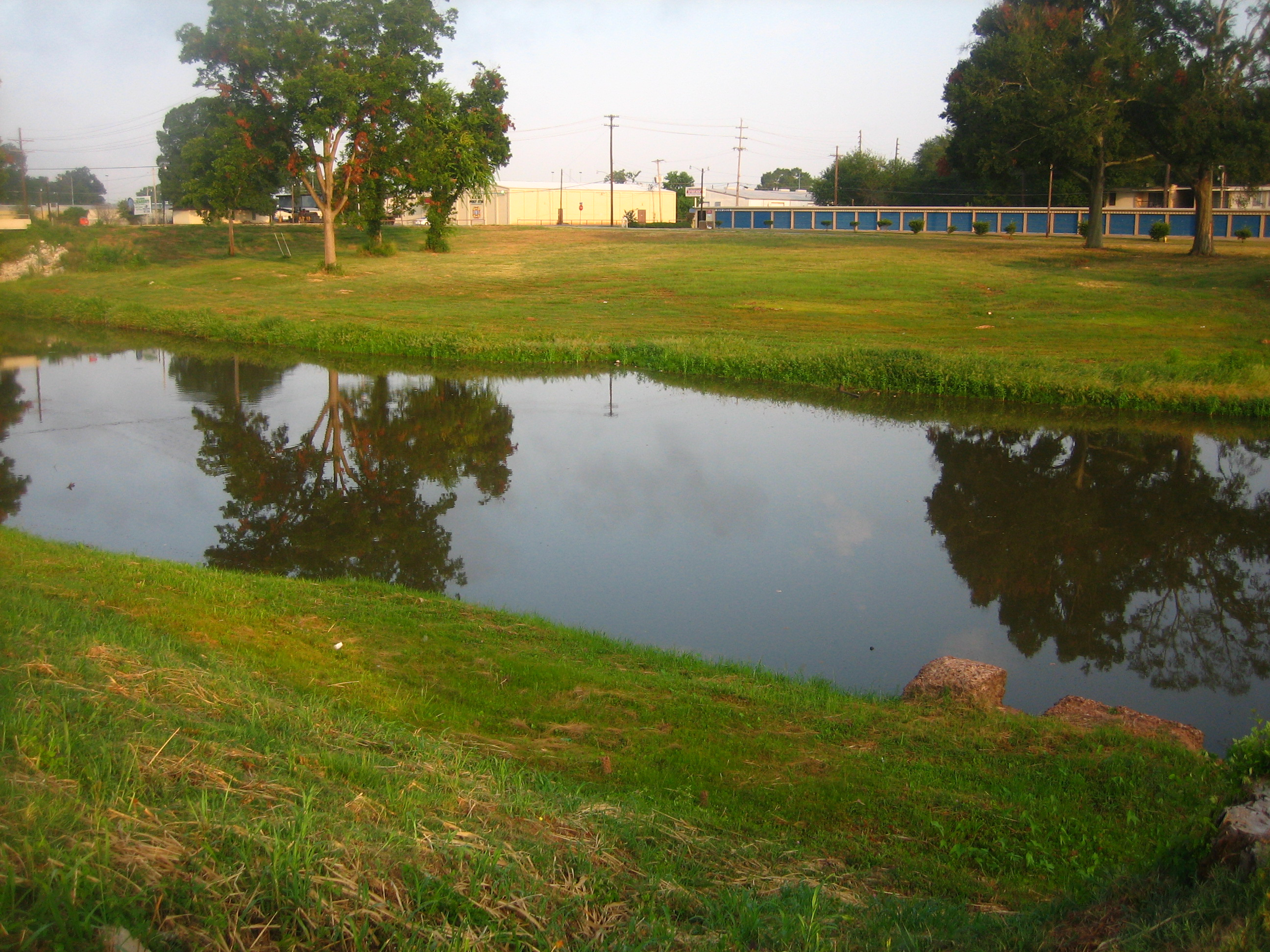 Alexandria, Louisiana. I took photo on Aug. 1, 2008.Billy Hathorn (talk) 11:23, 19 August 2008 (UTC)